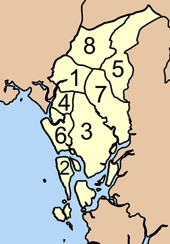 Map of Nuea Khlong district, Krabi province, Thailand, with the communes (tambon) numbered. Nuea Khlong (เหนือคลอง) Ko Si Bo Ya (เกาะศรีบอยา) Khlong Khanan (คลองขนาน) Khlong Khe Ma (คลองเขม้า) Khok Yang (โคกยาง) Taling Chan (ตลิ่งชัน) Paka Sai (ปกาสัย) Huai Yung (ห้วยยูง)